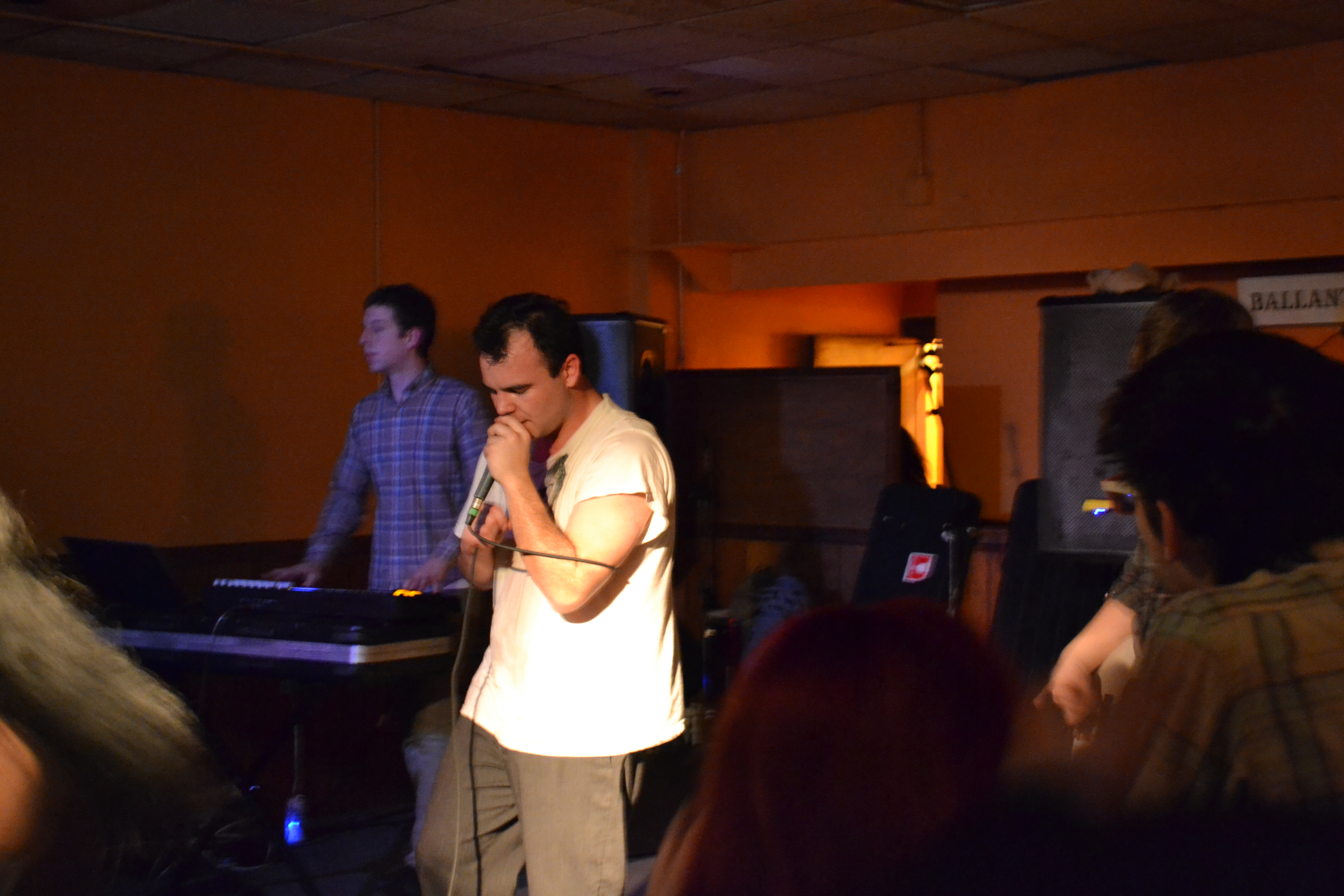 Future Islands performing at the Beachland Tavern in Cleveland, OH